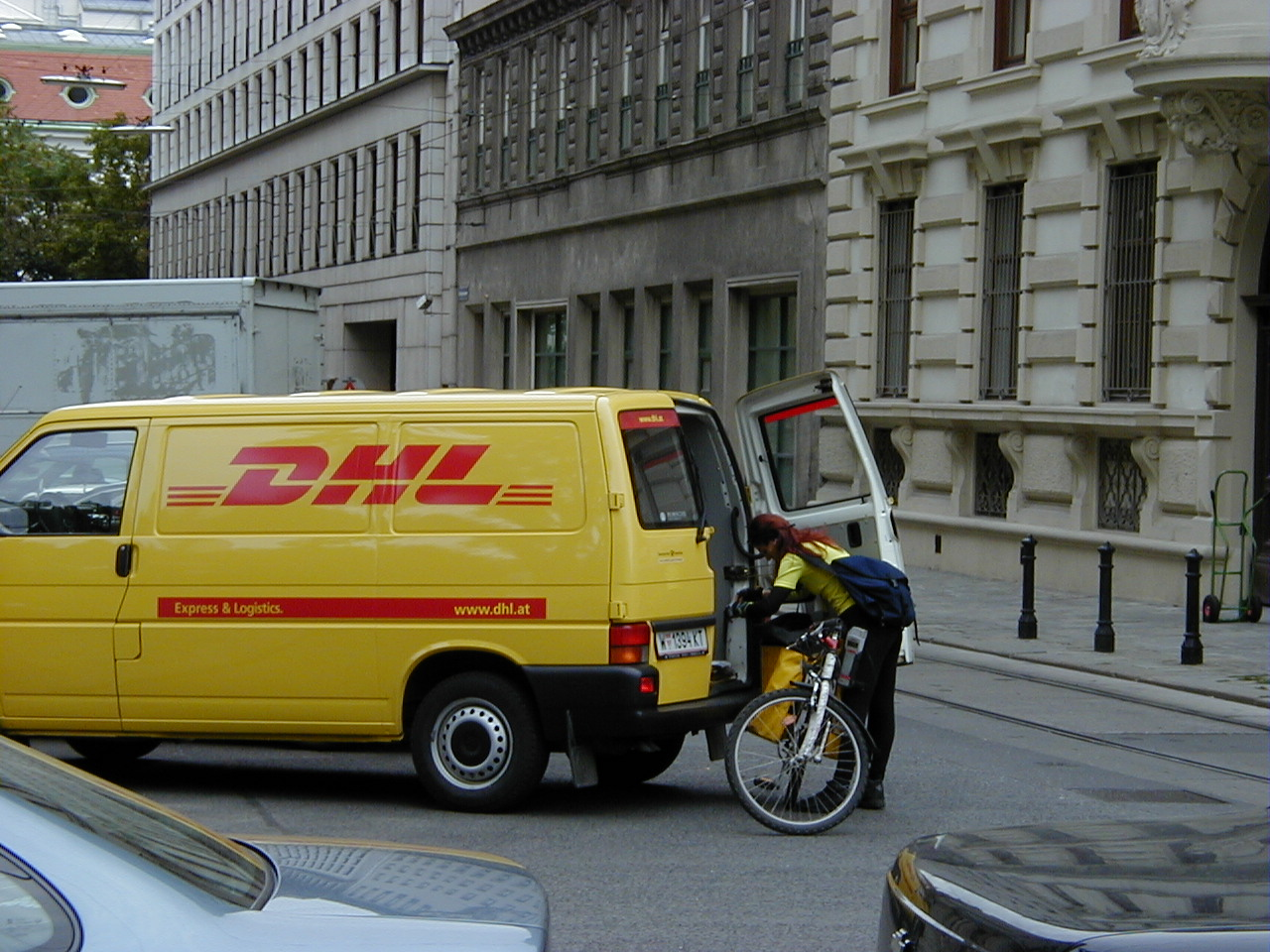 Women switching to the bike